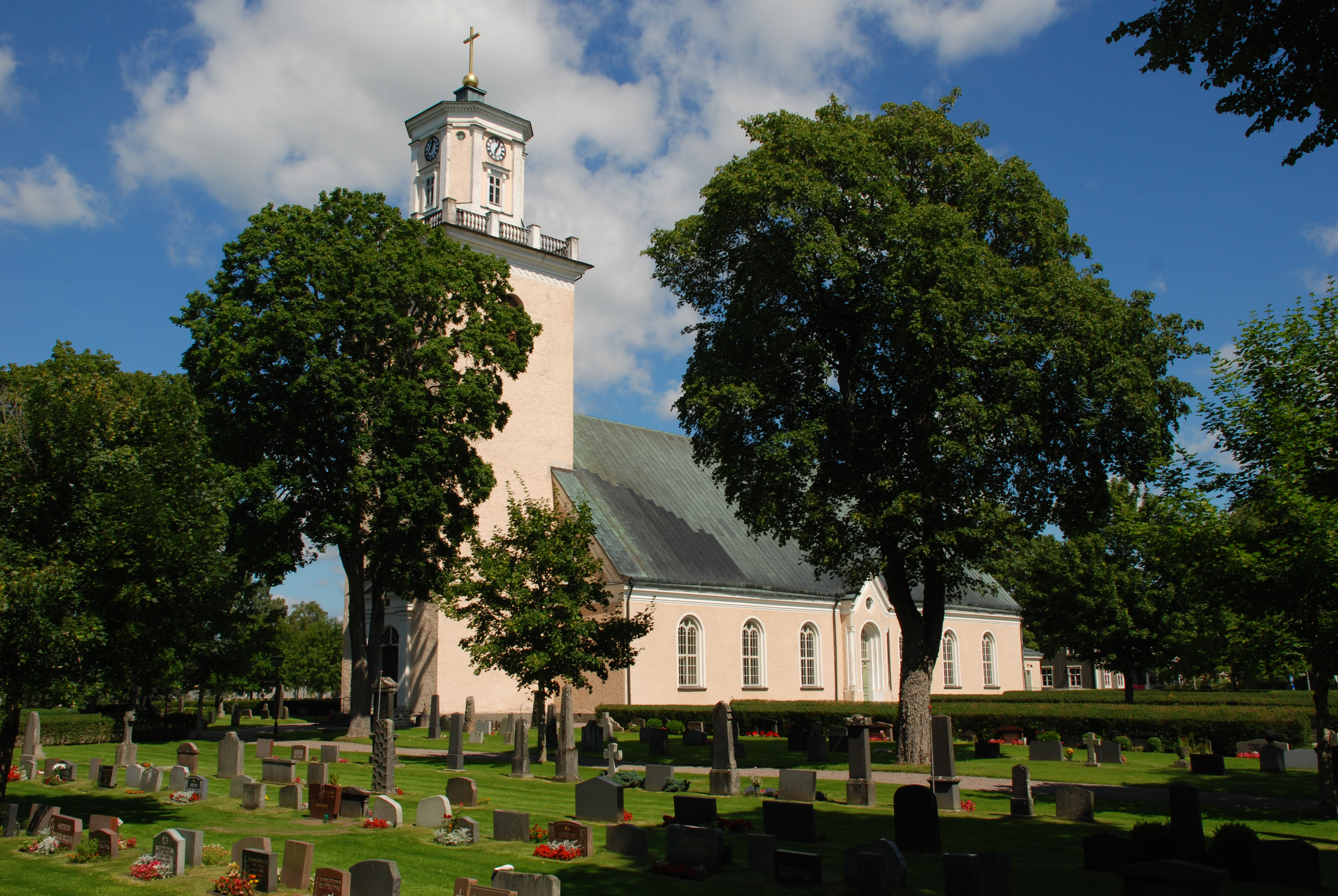 The church of Madesjö